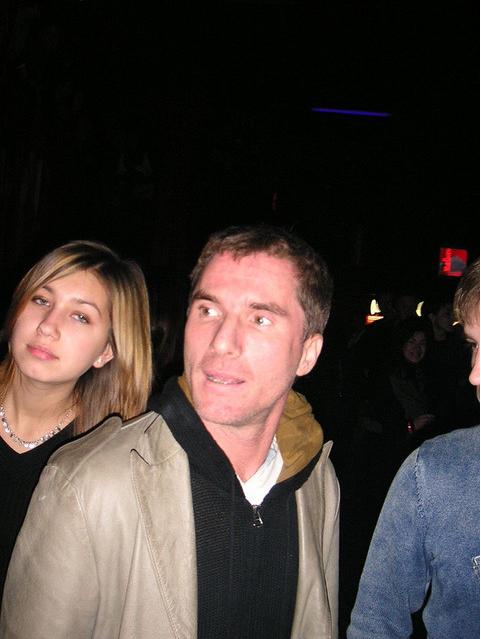 Ivan Shapovalov, former manager of the group t.A.T.u., at a concert of t.A.T.u. in the Gaudi Arena (Moscow) at October 28th 2005.